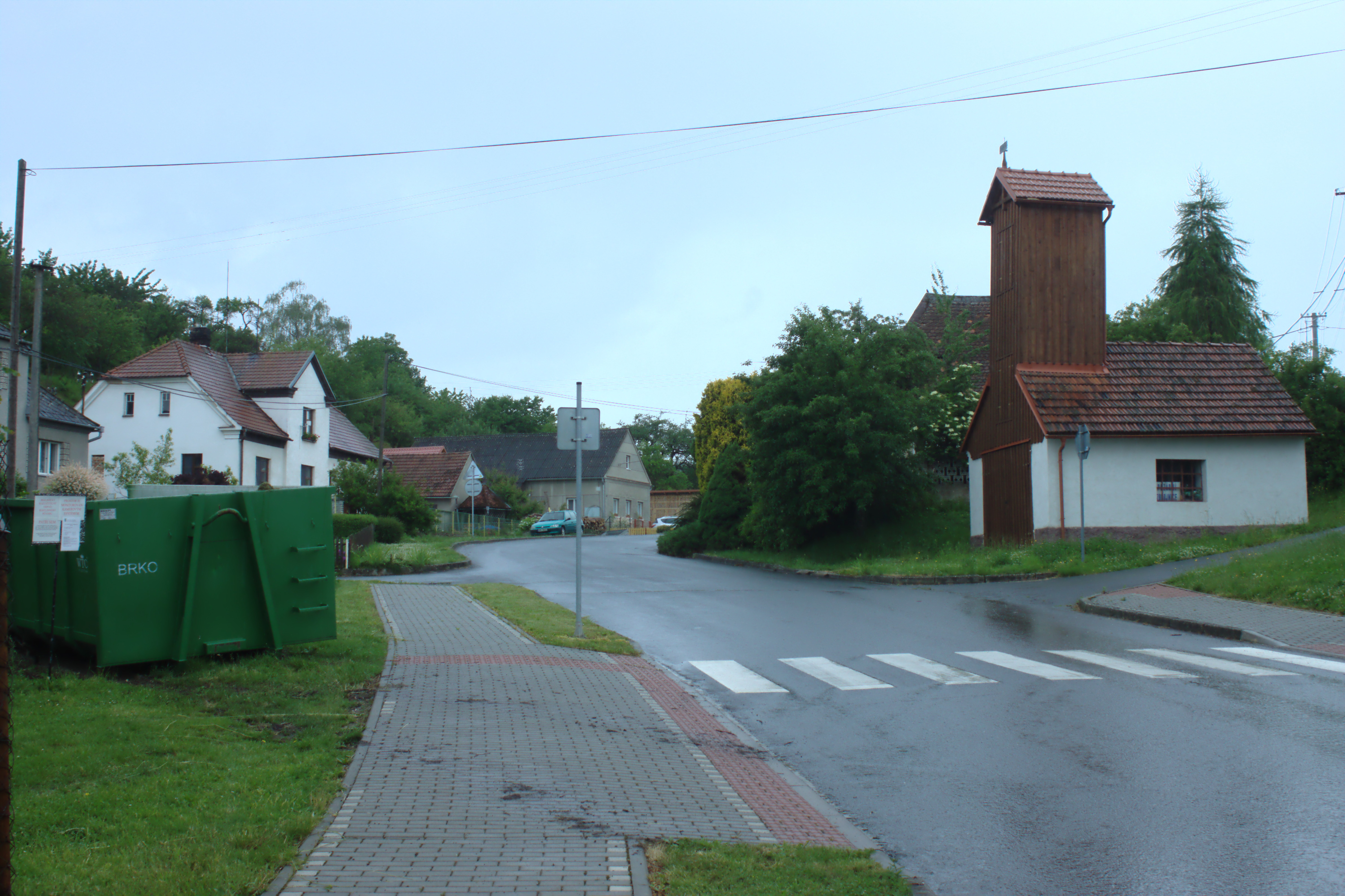 A fire station in Veleboř, Olomouc Region, CZ